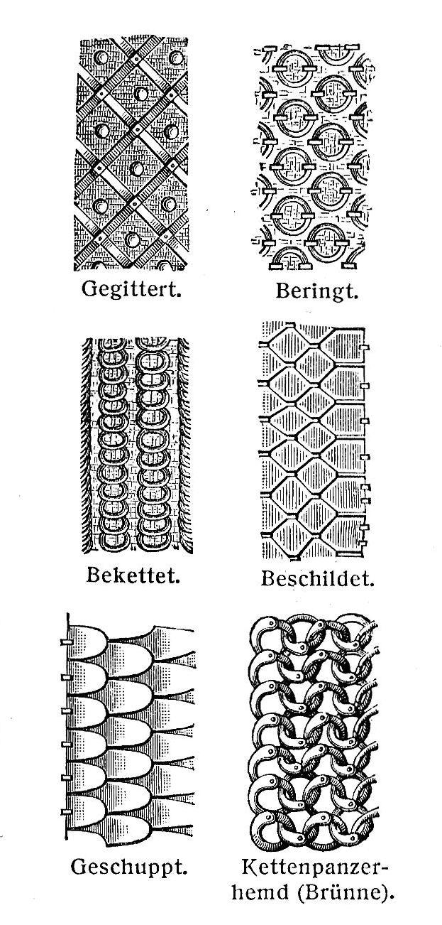 Different types of chain mail.